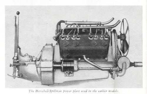 Herschell Spillman V-8 Engine as illustrated in 1917 Daniels brochure. This is an early example of a V-8. L-head , 331.8 c. i. Motor with 3 1/4 & 5 in. bore and stroke; N.A.C.C. rating is 33.8 HP